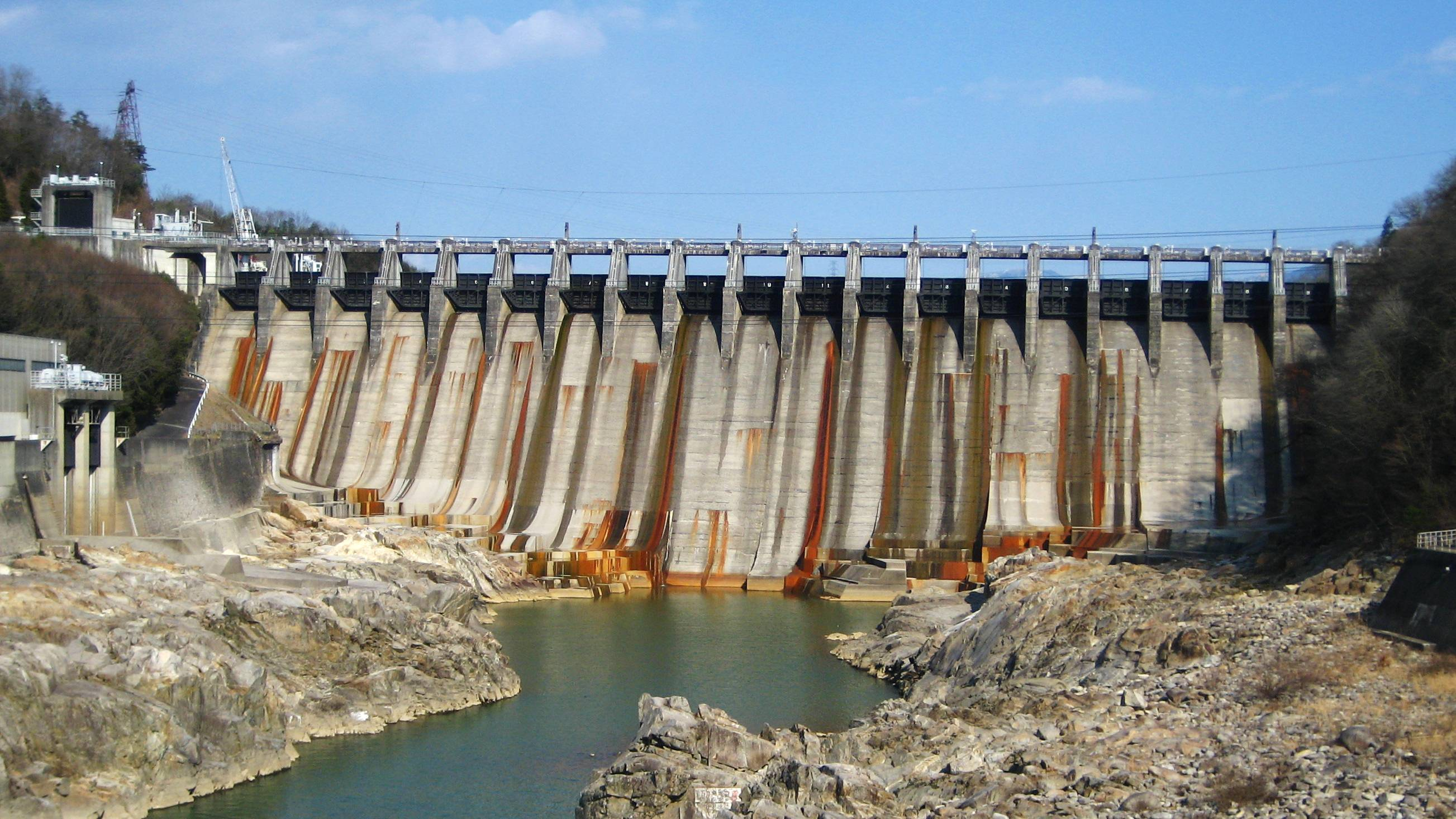 Oi Dam (大井ダム) is a dam on the boundary between Ena city and Nakatsugawa city, Gifu prefecture, Japan.